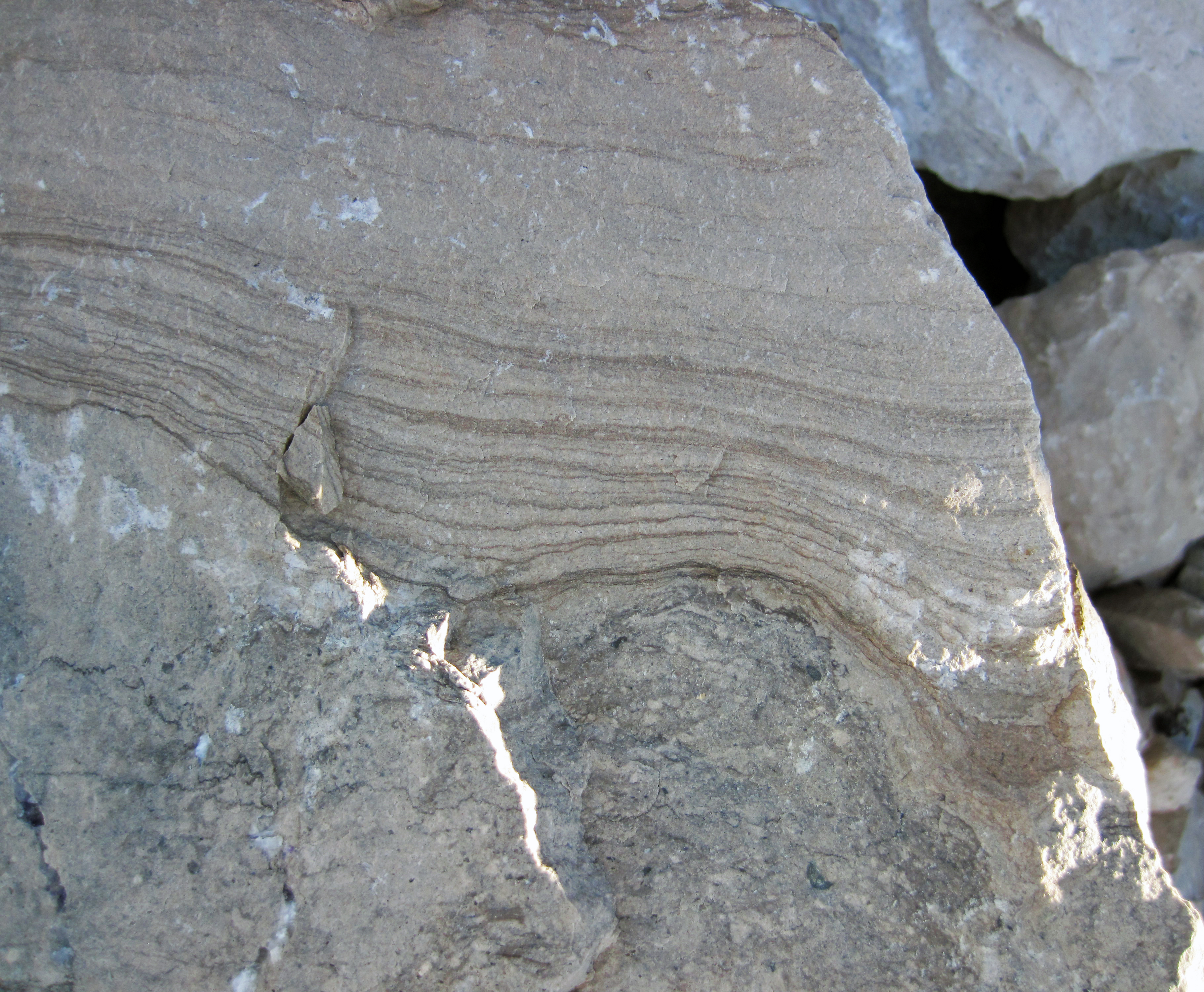 This is part of a large, loose block at an active quarry in far-northwestern Ohio. We were forbidden from closely approaching the walls. Rock piles on the quarry floor were available for close examination and mineral collecting. This rock is from the Lucas Dolomite of the Detroit River Group. The Lucas appears to consist of both dolostone and limestone. Finely-laminated, brown dolostone is a common lithology in this unit (see the upper half of the photo). Lack of stratigraphic control in the loose quarry blocks makes additional, specific lithologic assessments difficult. Stylolites are also present in the Lucas. The finely laminated portions of the Lucas have been identified by other workers as microbial mats. The mottled-gray, poorly-stratified portion of the block (= lower half of the photo) appears to be mostly carbonate breccia. Stratigraphy: Lucas Dolomite, upper Detroit River Group, Middle Devonian Locality: Auglaize Quarry (= Shelly Company, Stoneco's Auglaize Facility), southeast of the town of Junction, northeastern Paulding County, northwestern Ohio, USA (41° 10' 27.83" North latitude, 84° 25' 19.75" West longitude)